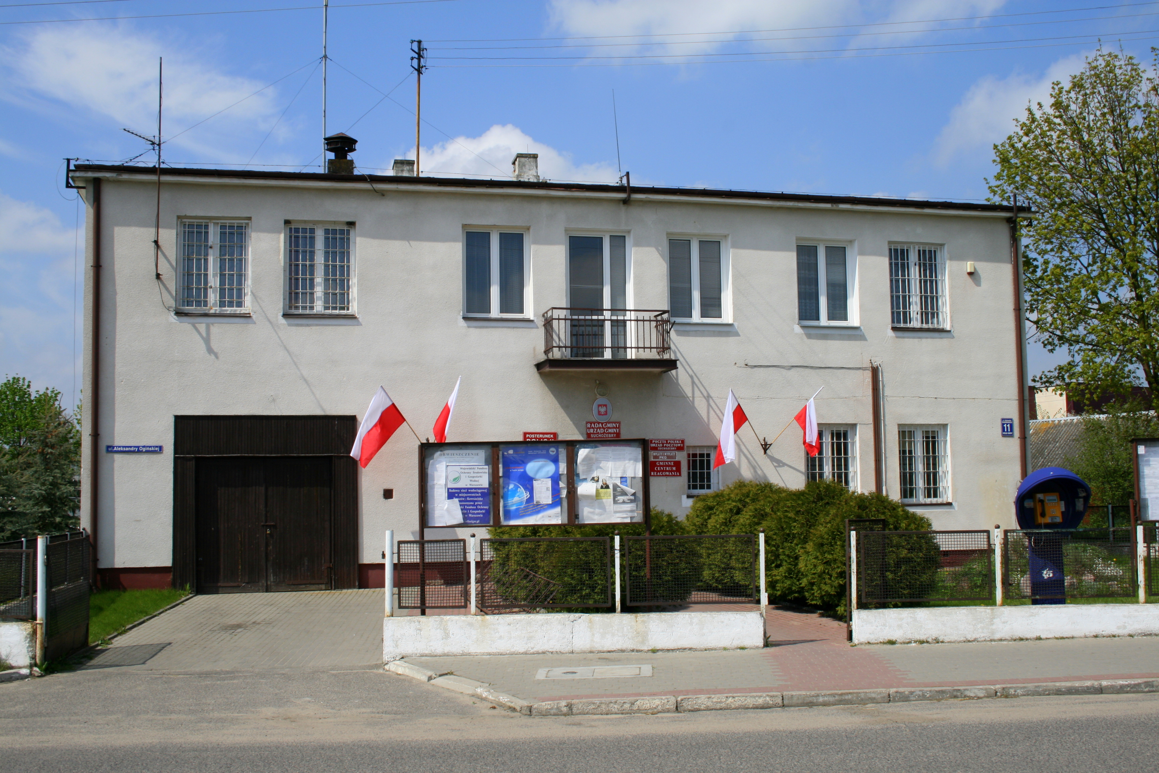 Office of gmina (commune) Suchożebry